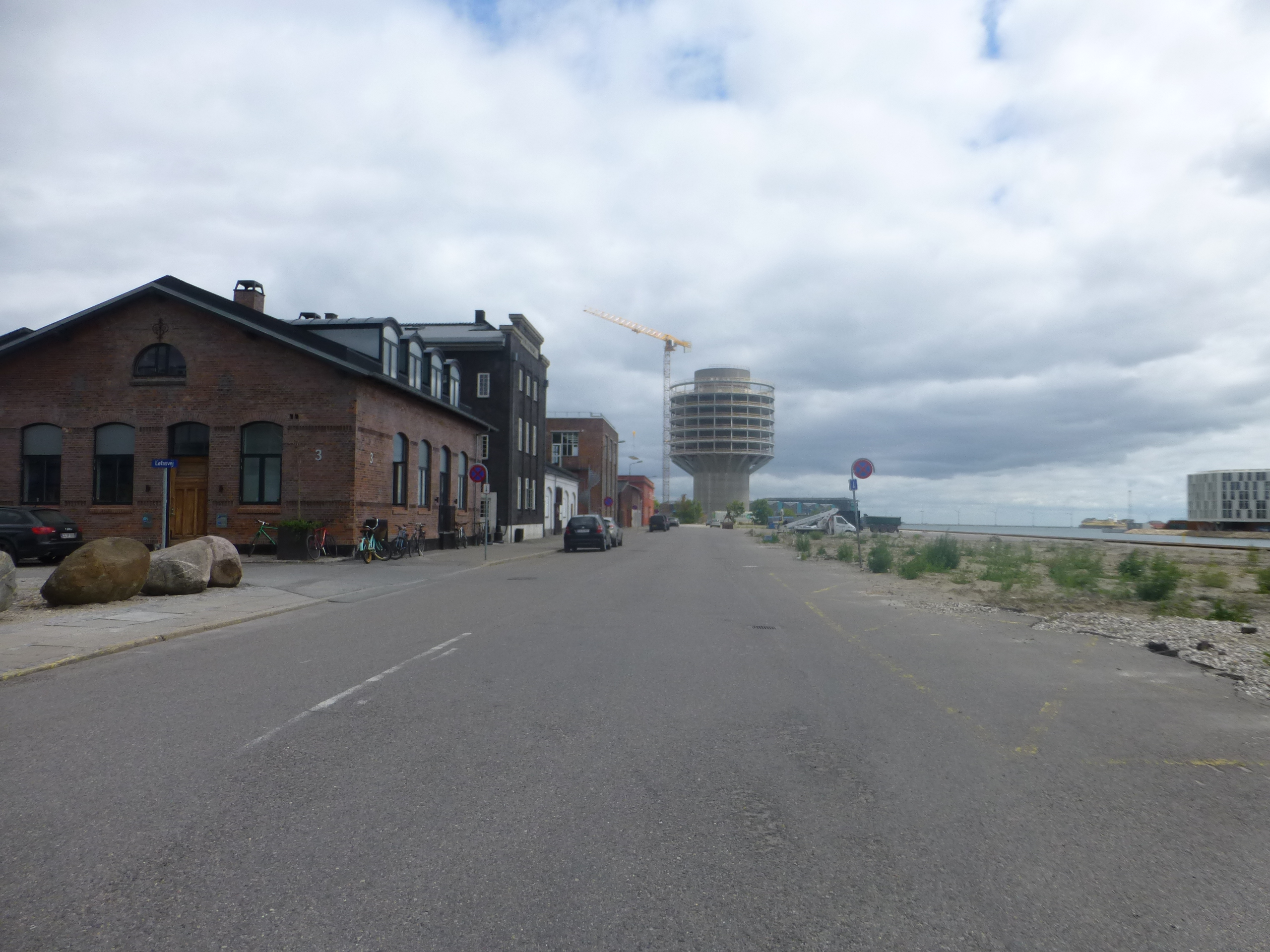 The street Redhavnsvej in Nordhavn in Copenhagen. In 2014 the name was changed to Trelleborggade.